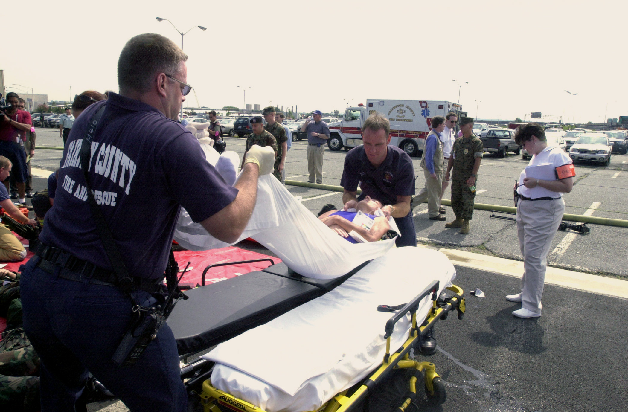 Arlington, Va. (Jul. 24, 2003) -- Paramedics from Fairfax County, Va., Fire and Rescue move a casualty from a gurney to a stretcher for transportation to a local hospital during Exercise Gallant Fox outside of the Pentagon. The purpose of Gallant Fox is to enable the Pentagon Force Protection Agency (PFPA) to exercise emergency response units in a real world scenario and provide valuable training for PFPA to better serve occupants of the Pentagon. U.S. Marine Corps photo by Cpl. Eugene Clarke. (RELEASED)